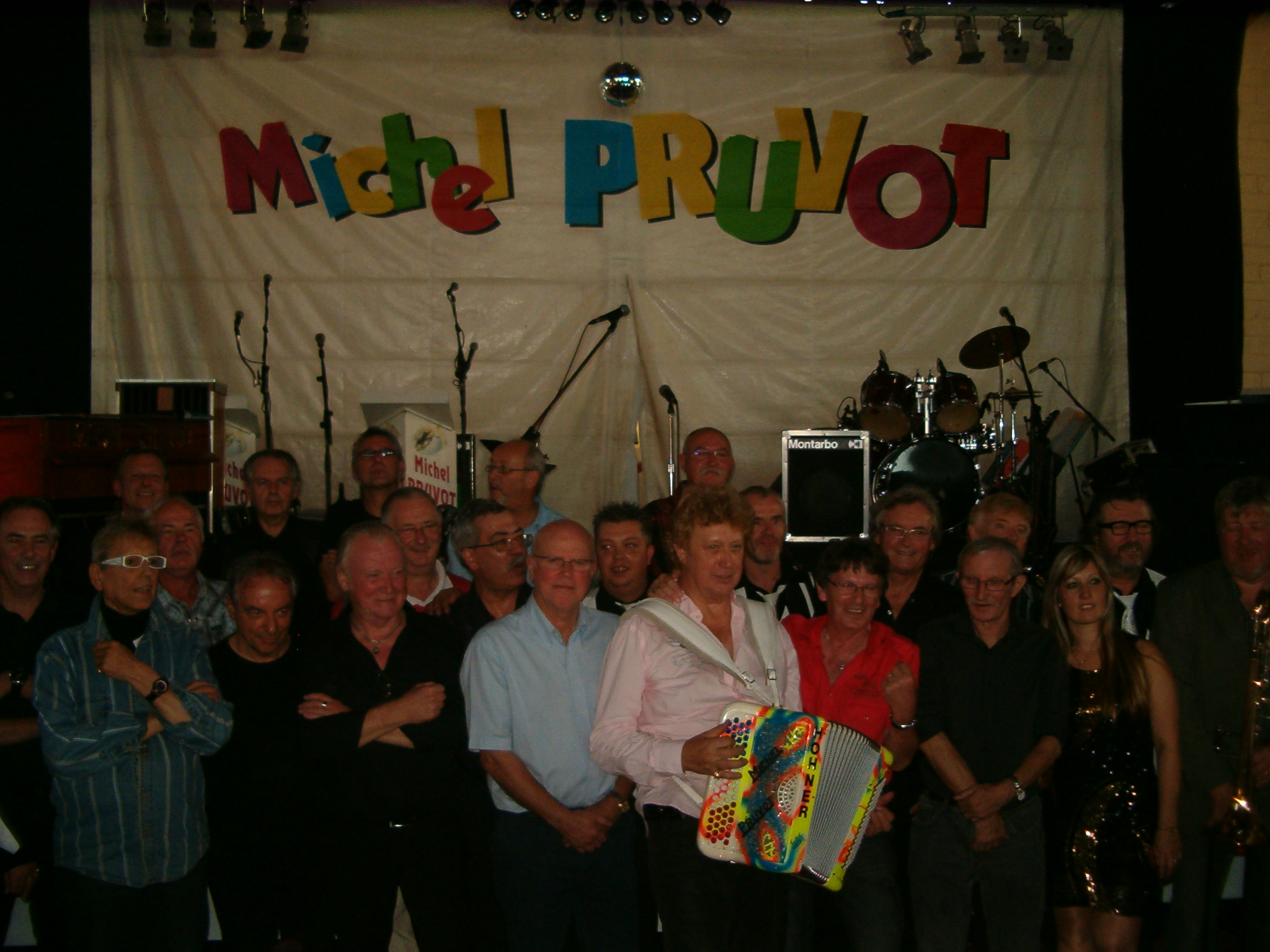 Michel Pruvot celebrating his 50-year career at the Mégacité d’Amiens, France